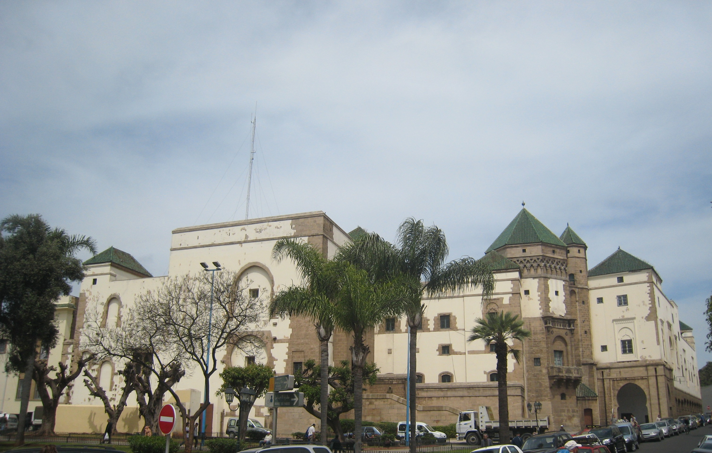 Mahkama du Pacha, Casablanca.